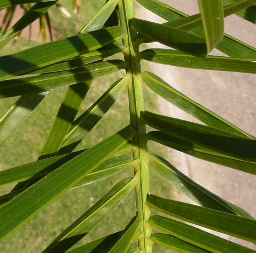 Probably Syagrus romanzoffiana ("pindó"). Trenque Lauquen, Buenos Aires province, Argentina.